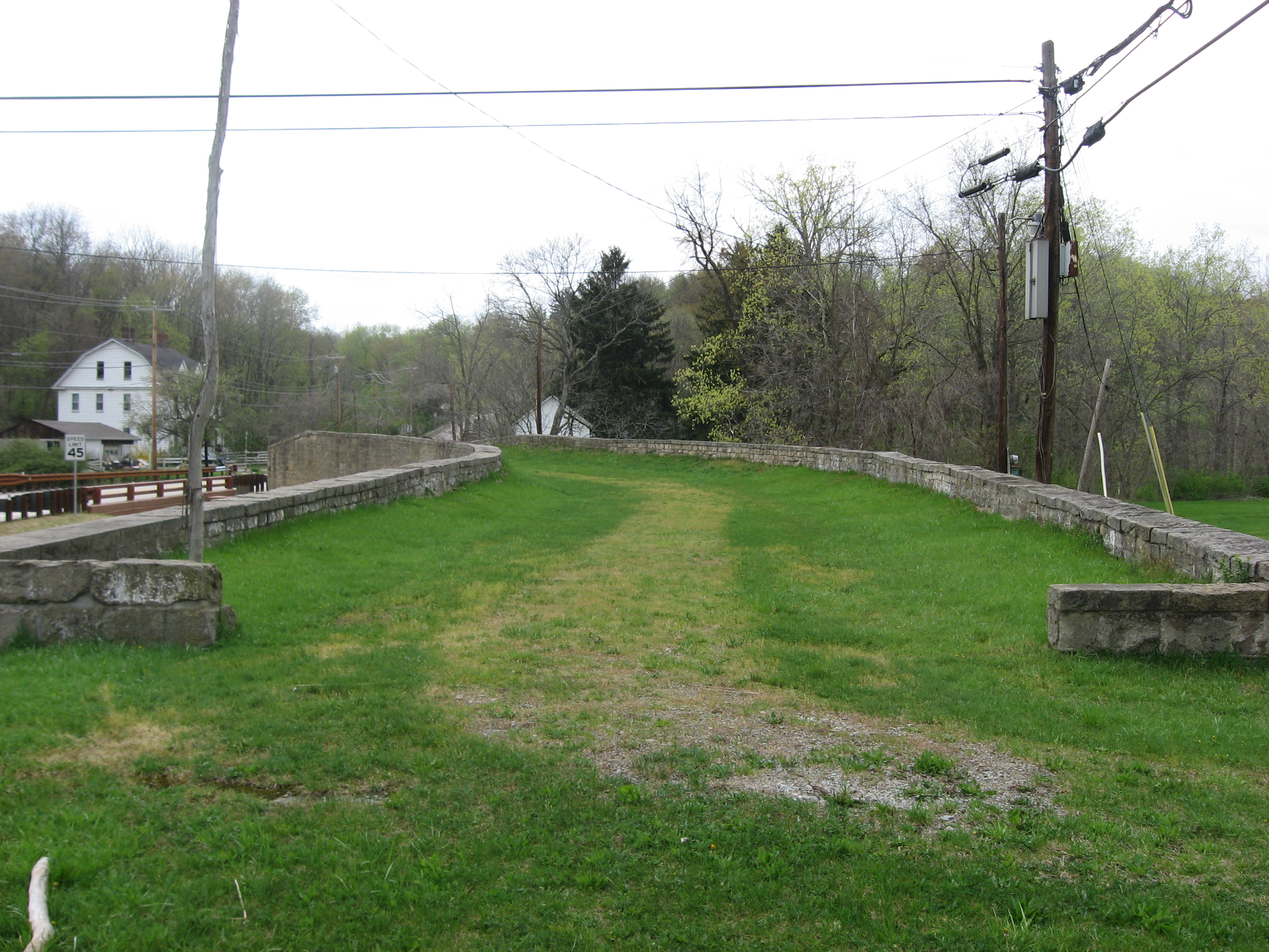 Eastern end of the Claysville S Bridge, which formerly carried U.S. Route 40 over Buffalo Creek in Buffalo Township, Washington County, Pennsylvania, United States. Built in 1818, the bridge is listed on the National Register of Historic Places.